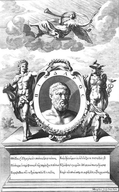 Frontispiece showing Pindar of Pindarou Olympia, Nemea, Pythia, Isthmia (1697) edited by Richard West and Richard Welsted.